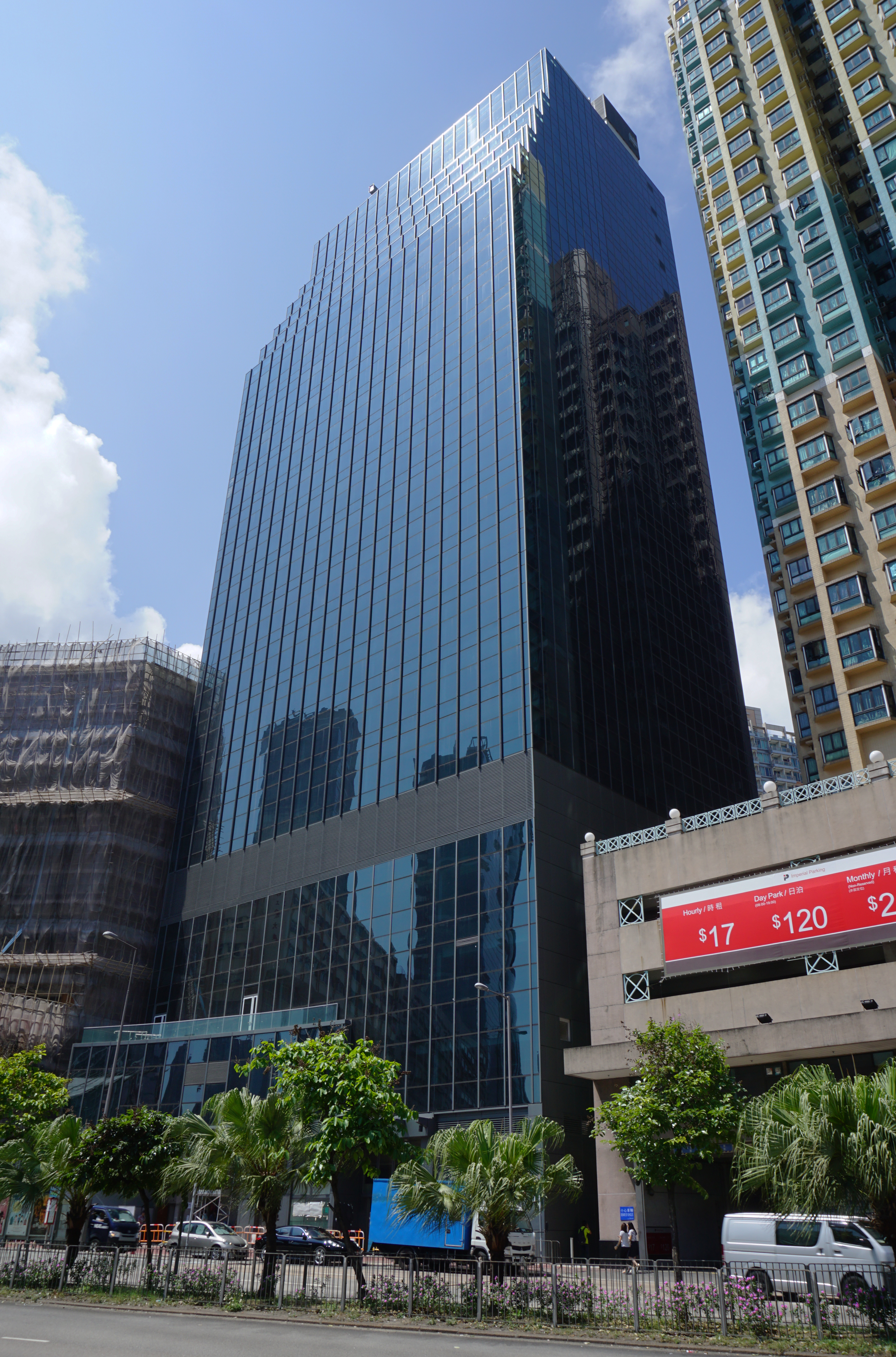 China Shipbuilding Tower in Lai Chi Kok, Hong Kong.